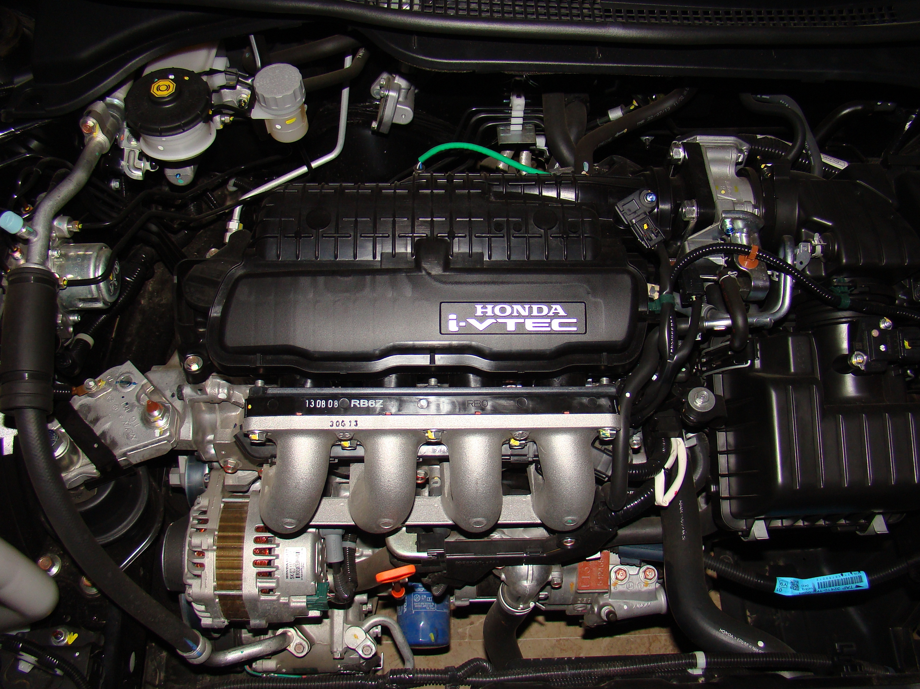 This file is a photo of my brand new Honda City's L13A i-VTEC engine